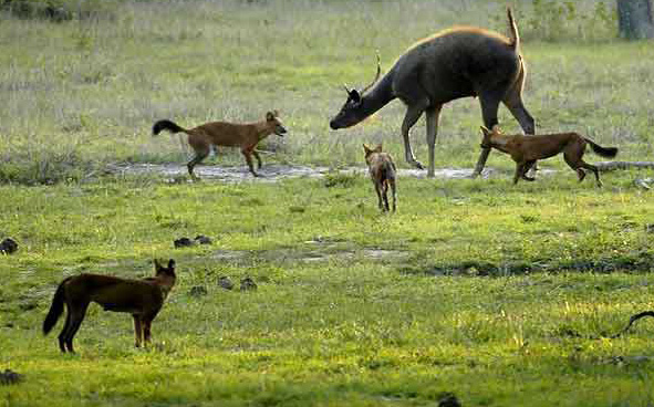 Pack of Dholes trying to hunt a sambar stag